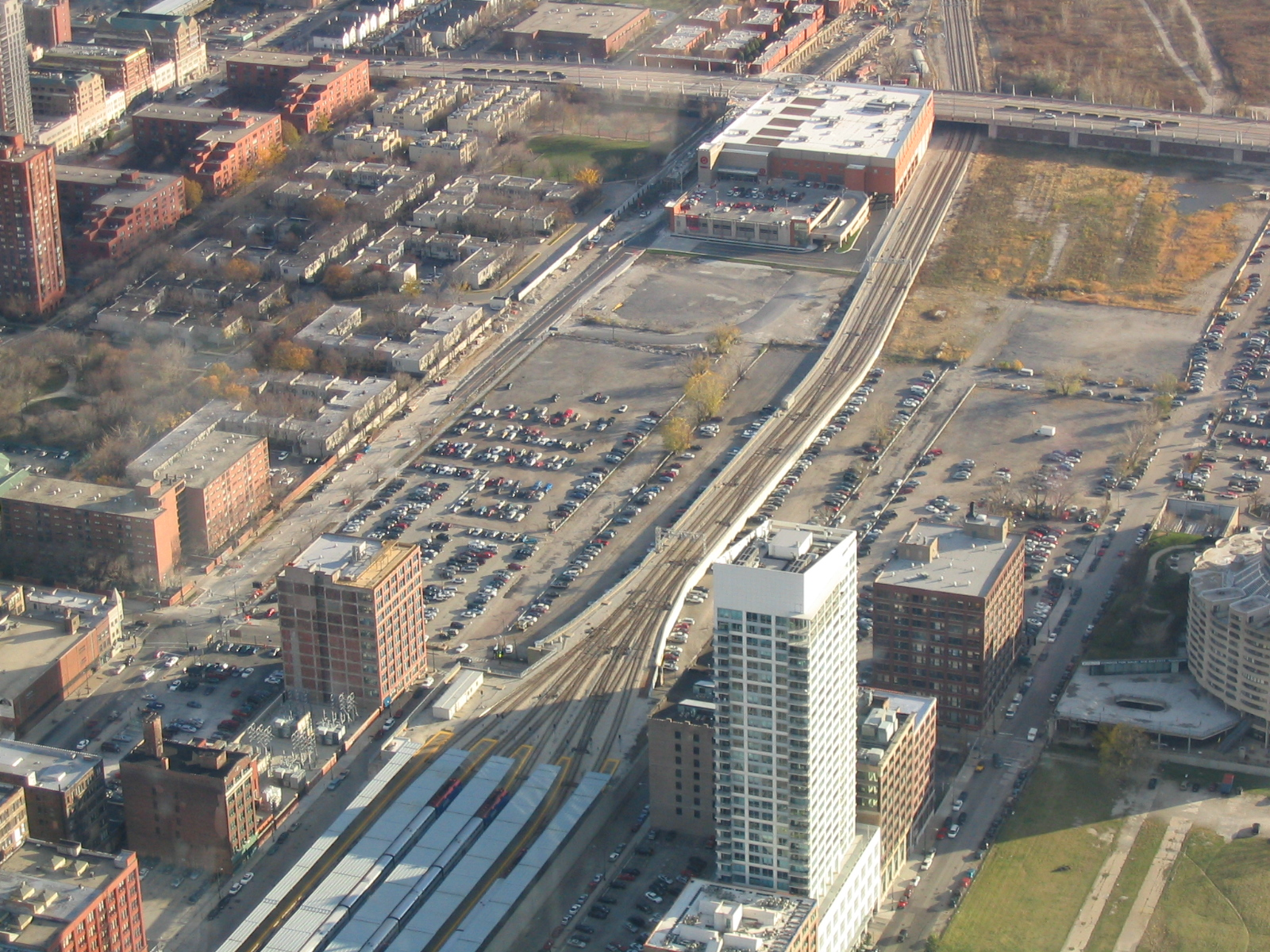 Description: View looking south from the Sears Tower in Chicago, Illinois Source: Dori